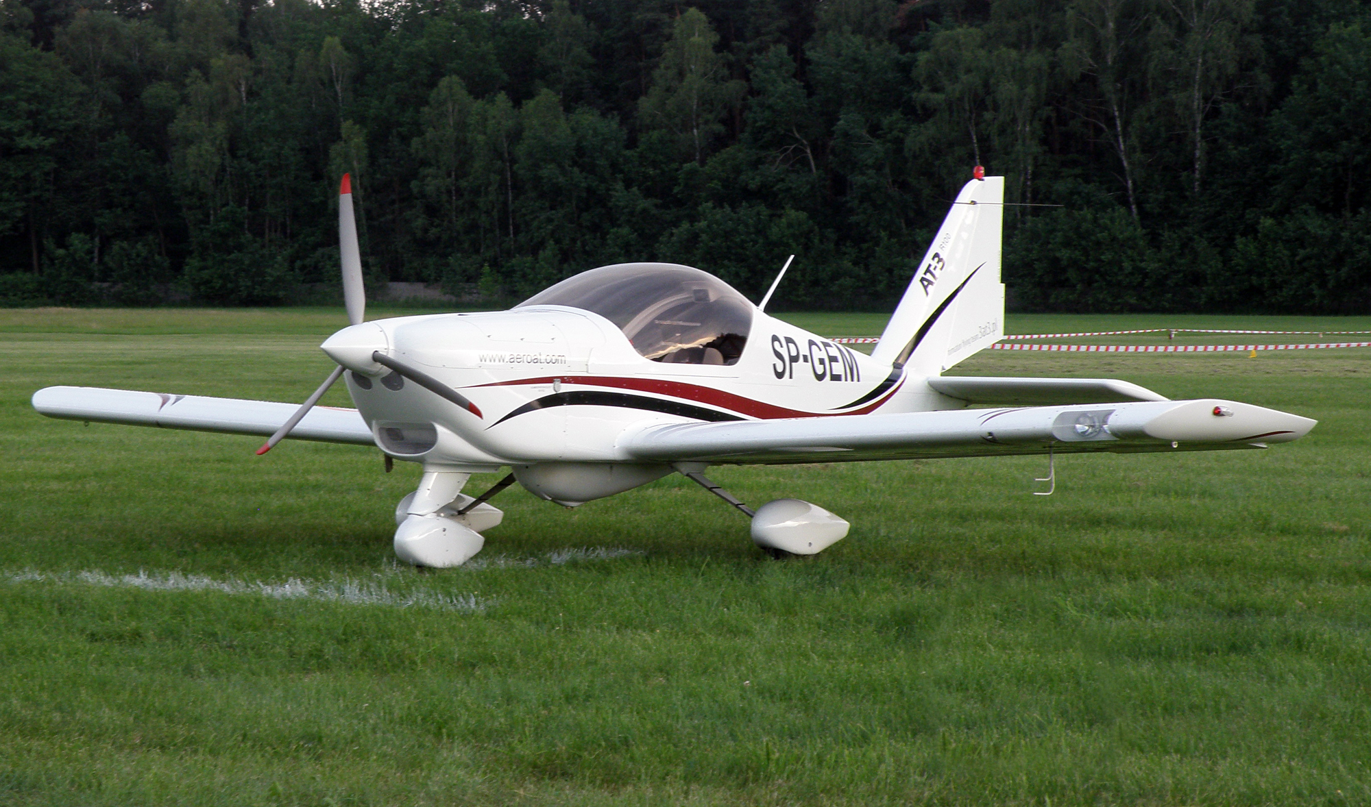 Góraszka Air Picnic 2010